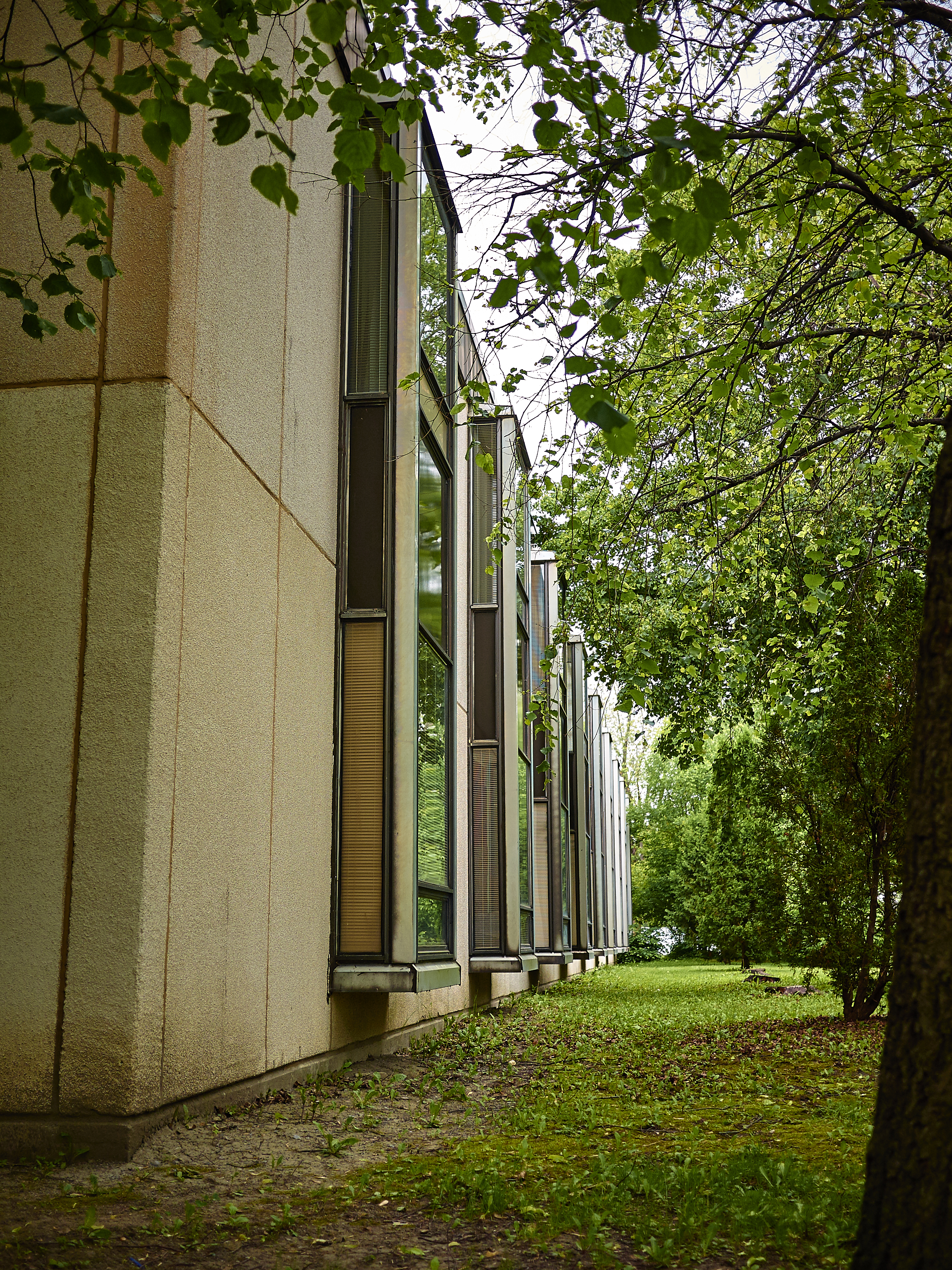 View of the classroom windows at the front of Colonel By Secondary School in Ottawa, Ontario, Canada.